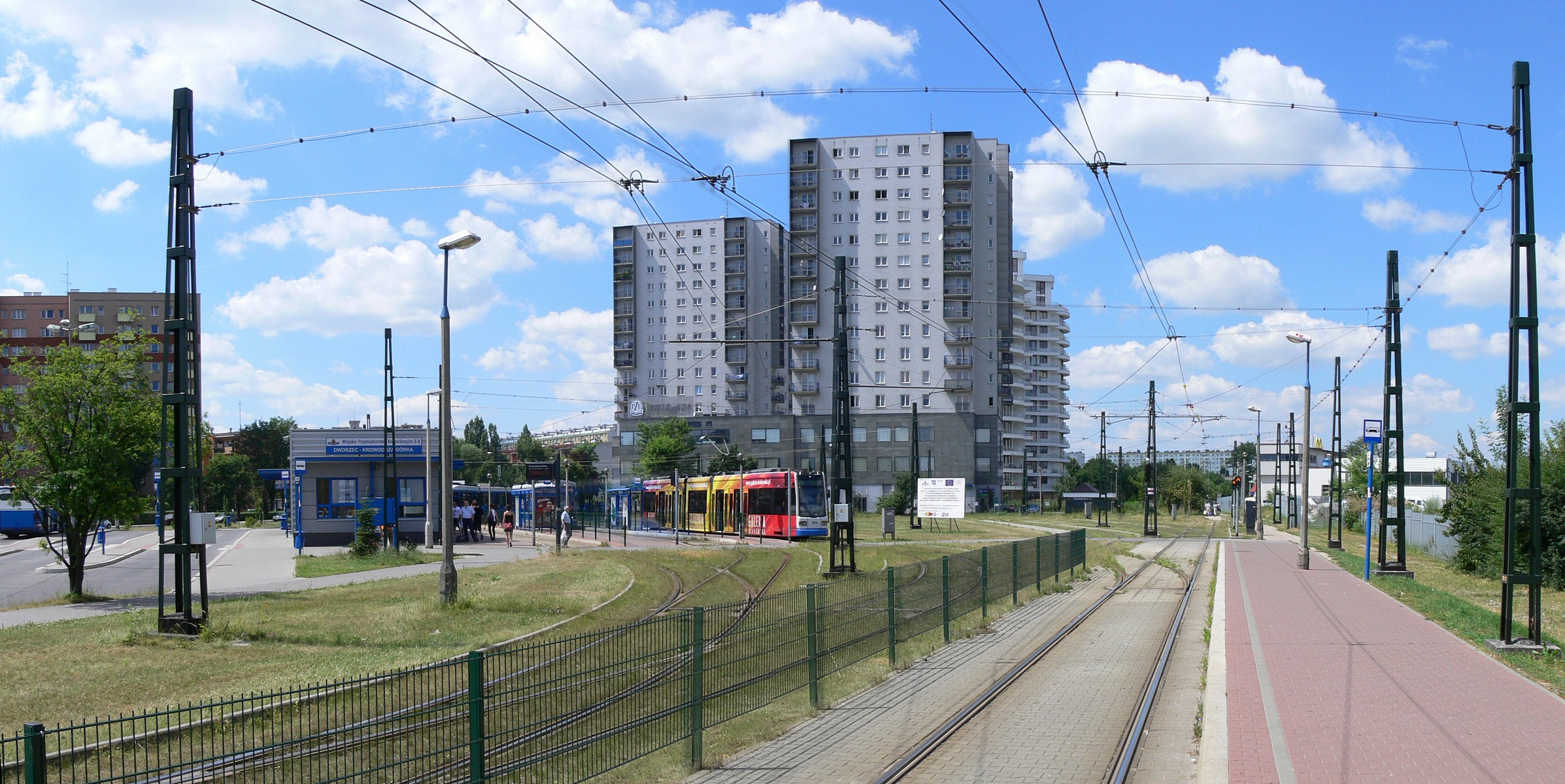 Krowodrza Górka balloon loop with MPK terminal in Kraków, Poland